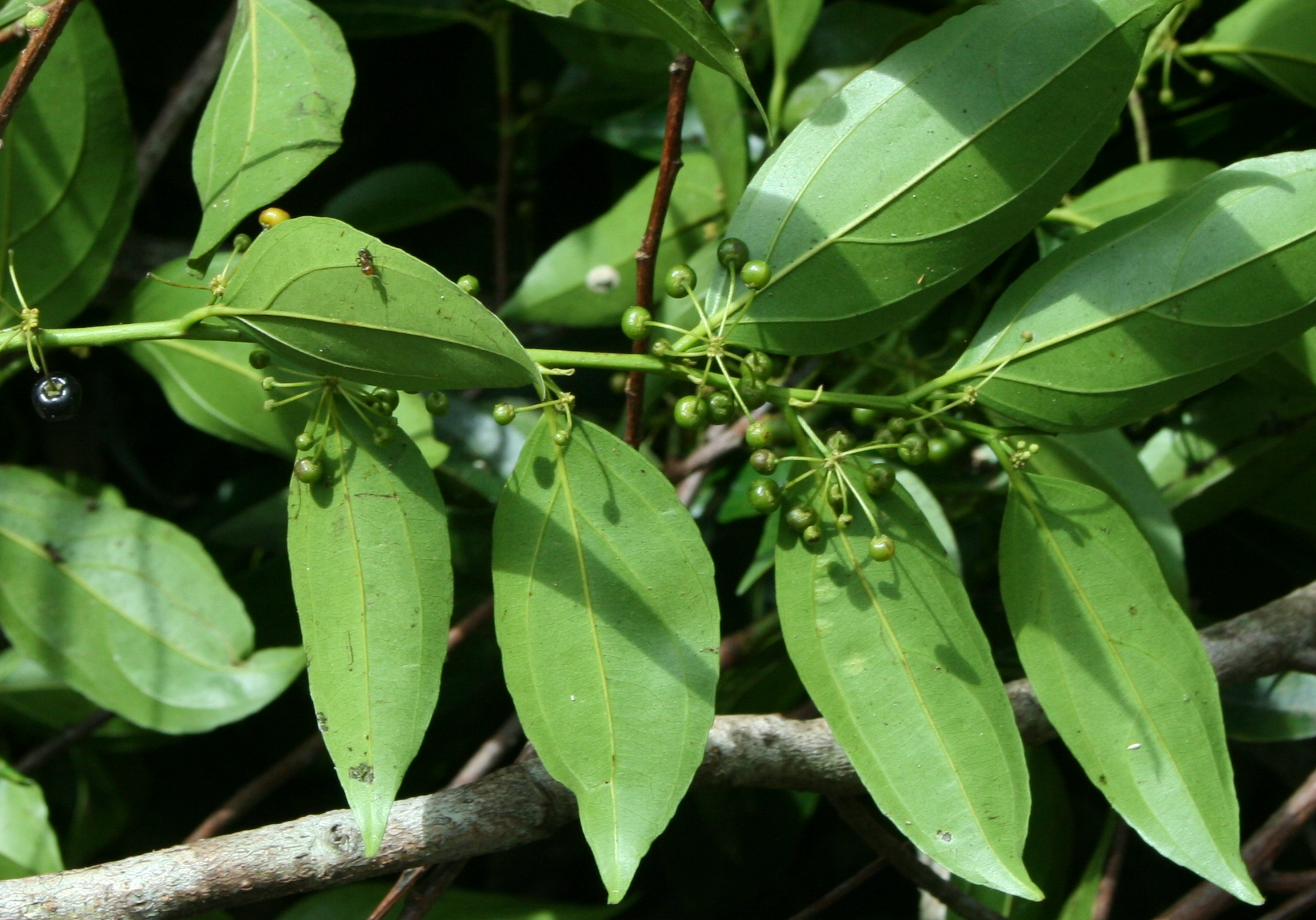 Fruiting branch of Goupia glabra, Rio Caura, Venezuela